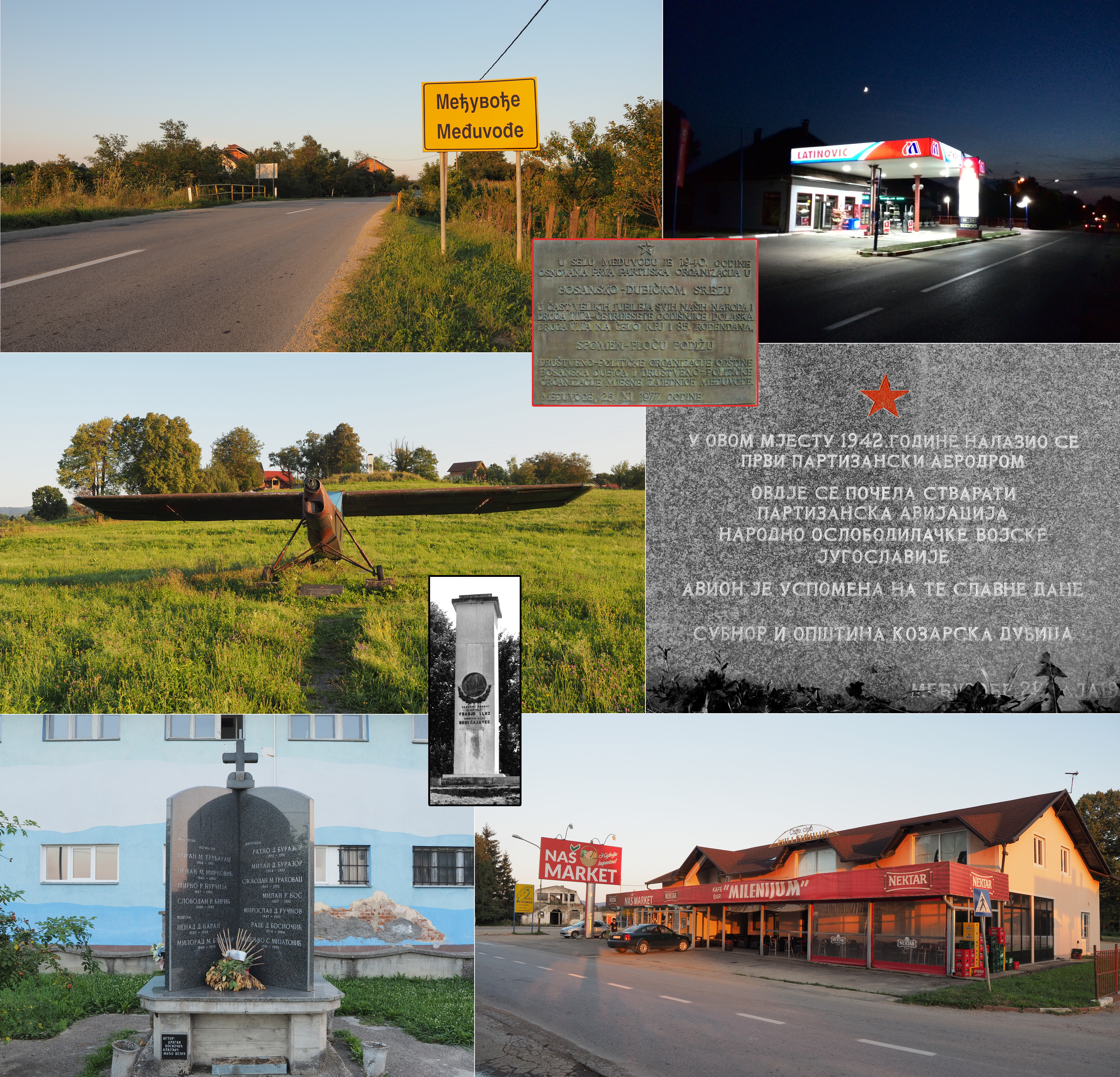 Međuvođe (Међувође, Република Српска), Bosnia and Herzegovina